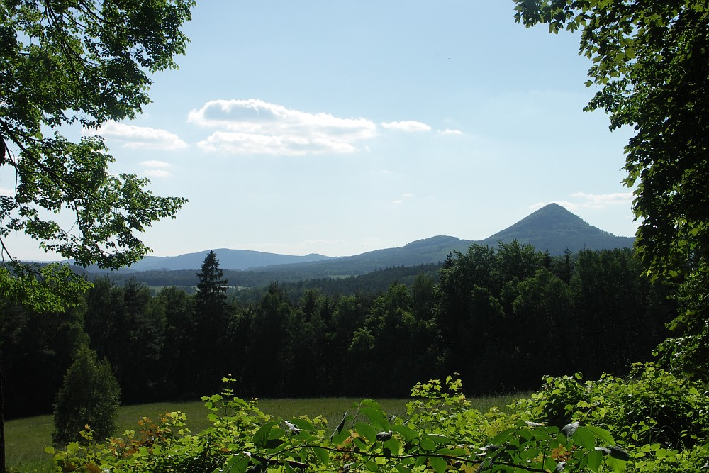 Klíč (Kleis), Lusatian Mountains, Czech Republic, as seen from the Křížový vch (Kalvarienberg) near Cvikov